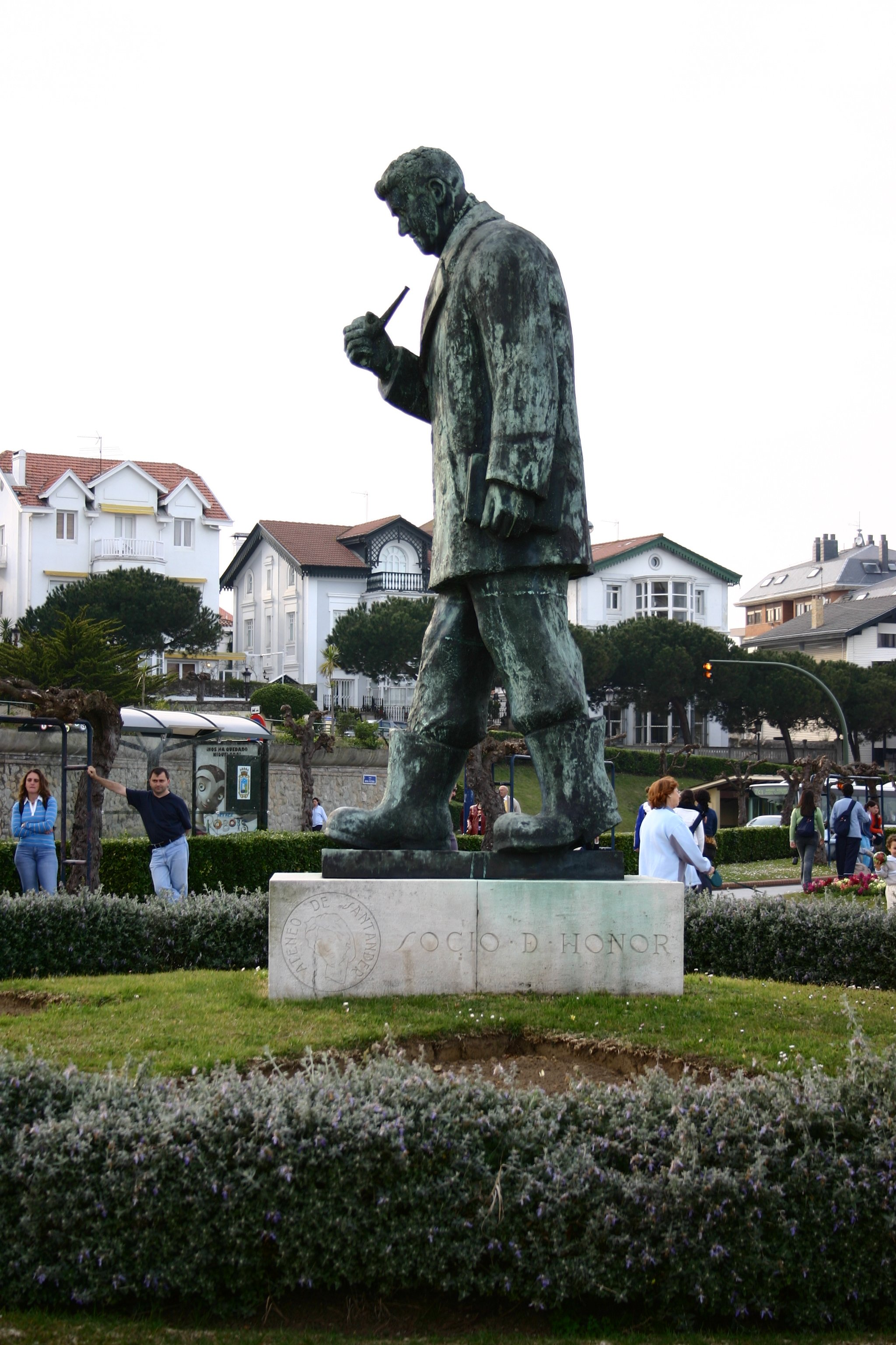 City of Santander. Statue of Jose del Rio Sainz